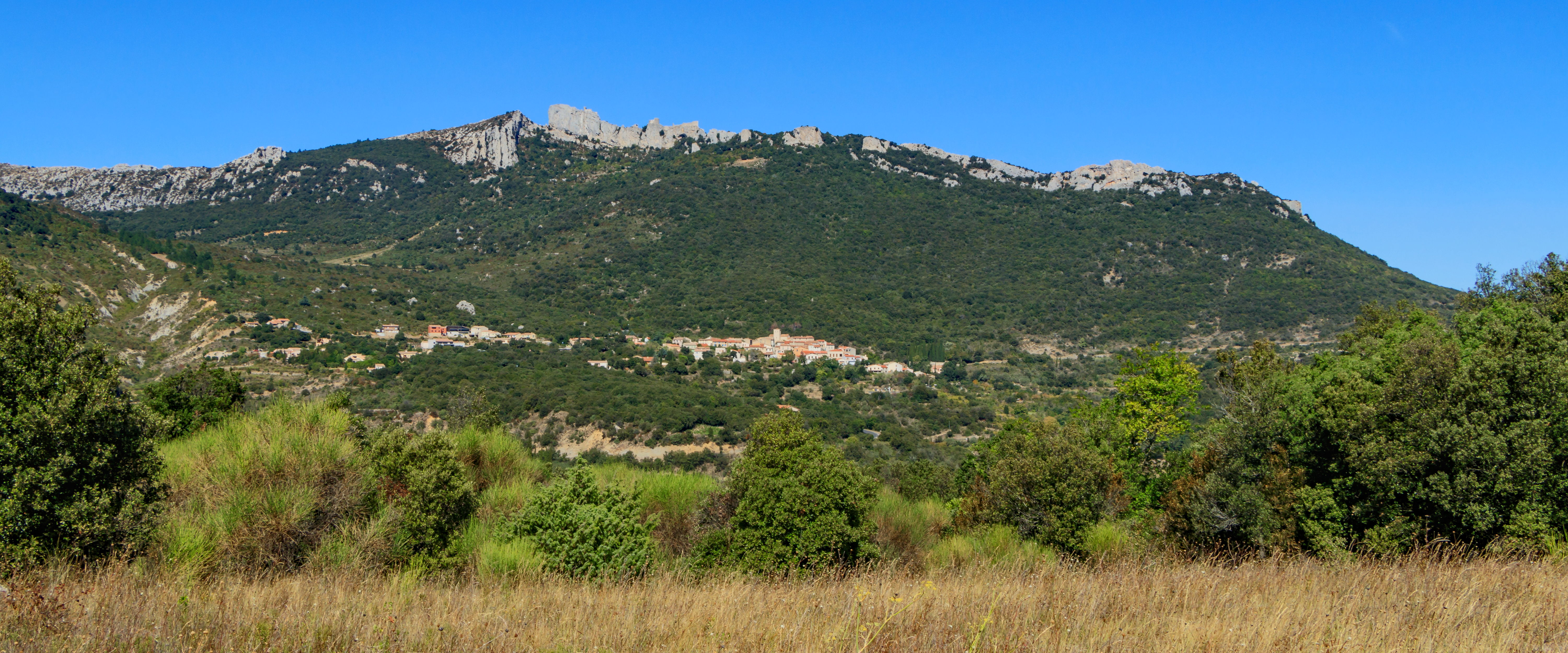 View from southeast on Duilhac-sous-Peyrepertuse and the Peyrepertuse castle, Département Aude, France